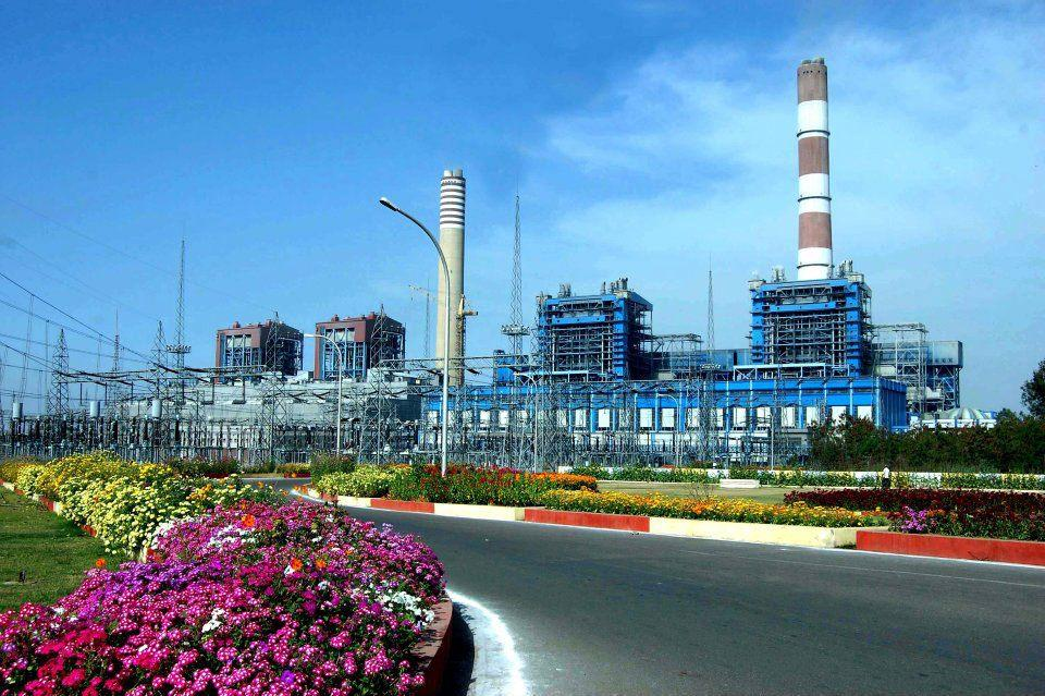 The building is a thermal power station